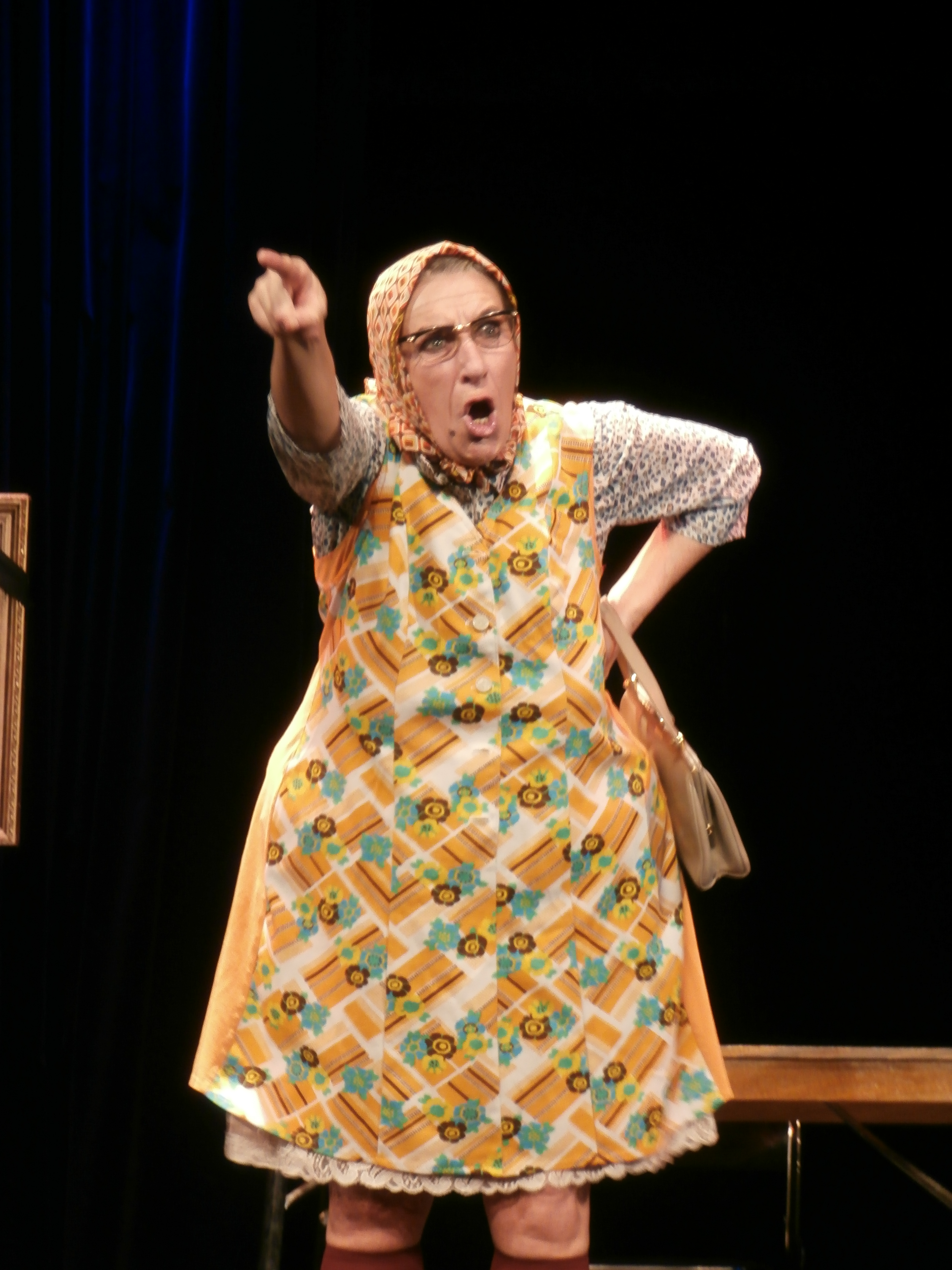 The Vamp Gisèle Rouleau by Dominique de Lacoste in her woman show "Sous les feux de la Vamp".